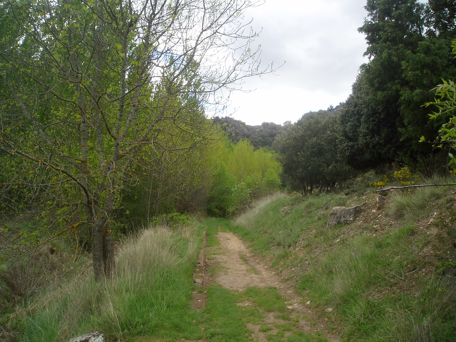 Place of the Nature Reserve of the Ravine of the Dulce river, in which we observe on the one hand vegetation of bank, as black poplars or poplars, and for other one wooded formations of oaks and gall oaks.